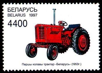 Stamp of Belarus